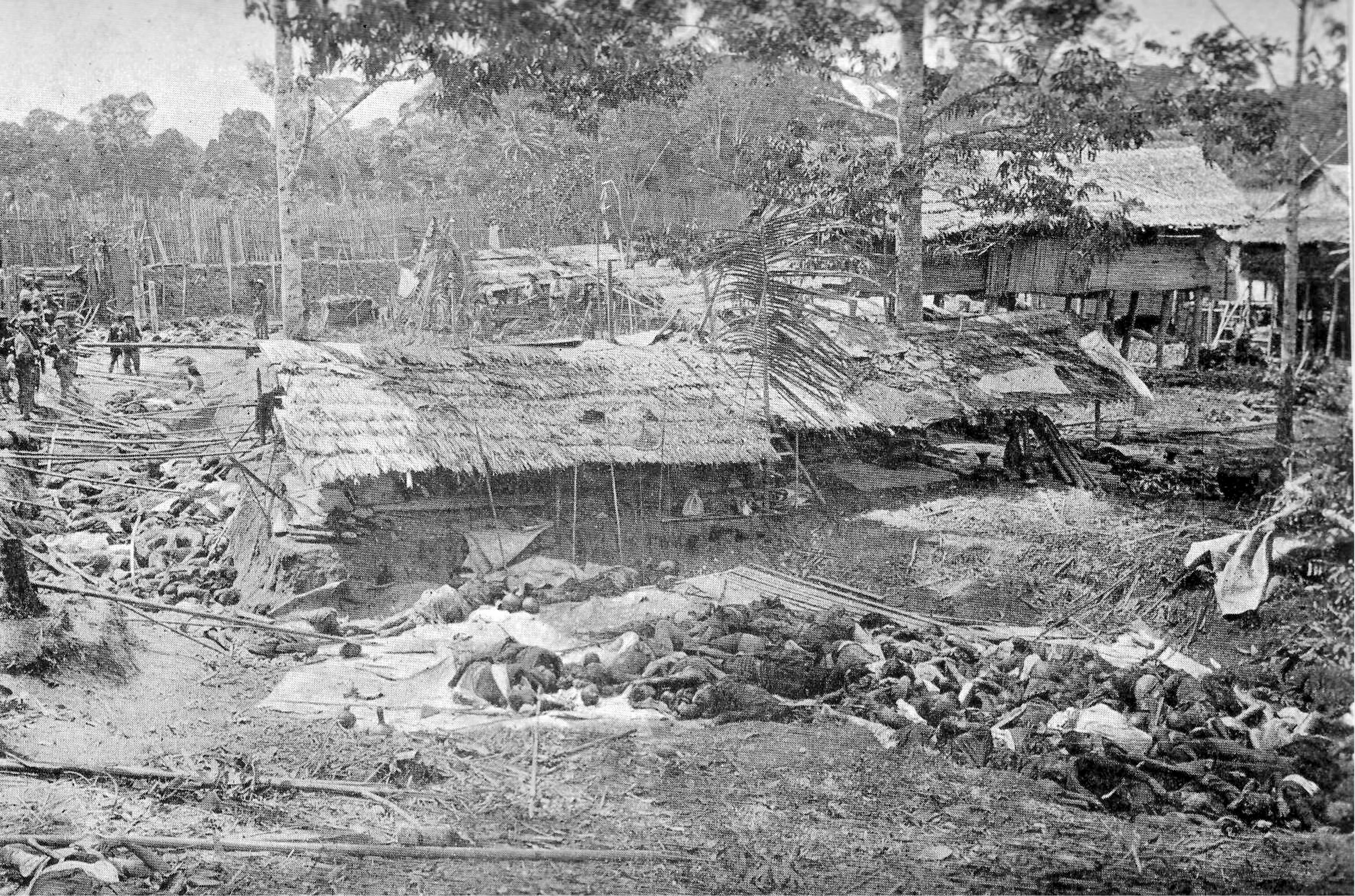 A photo of the massacre at Kuta Reh, perpetrated 14 June 1904 by Gotfried Coenraad Ernst van Daalen